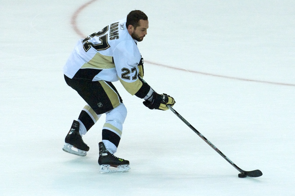 Craig Adams of the Pittsburgh Penguins before Game 7 against the Washington Capitals.